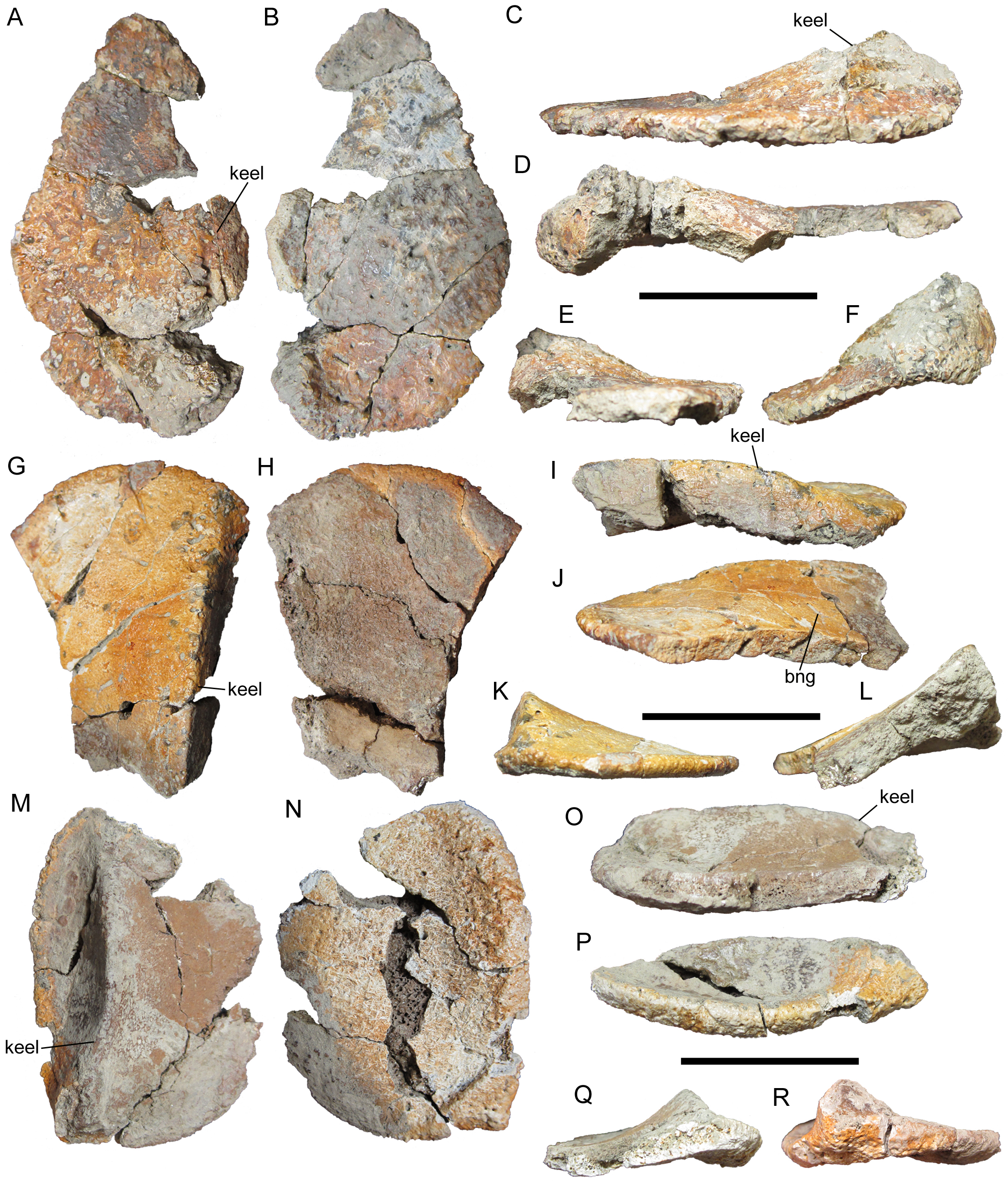 Original figure caption: Cervical/pectoral osteoderms of WSC 16505, holotype of I. zephyri. WSC 16505.1, right medial cervical/pectoral osteoderm in (A) external, (B) basal, (C) medial, (D) lateral, (E) cranial, and (F) caudal views. WSC 16505.2, left medial cervical/pectoral osteoderm in (G) external, (H) basal, (I) medial, (J) lateral, (K) cranial, and (L) caudal views. WSC 16505.3, left distal osteoderm from the second cervical half-ring in (M) external, (N) basal, (O) medial, (P) lateral, (Q) cranial, and (R) caudal views. Study site: bng, bifurcated neurovascular groove. Cranial is toward the top of the figure in A, B, G, H, M, and N. Scale bars equal five cm.